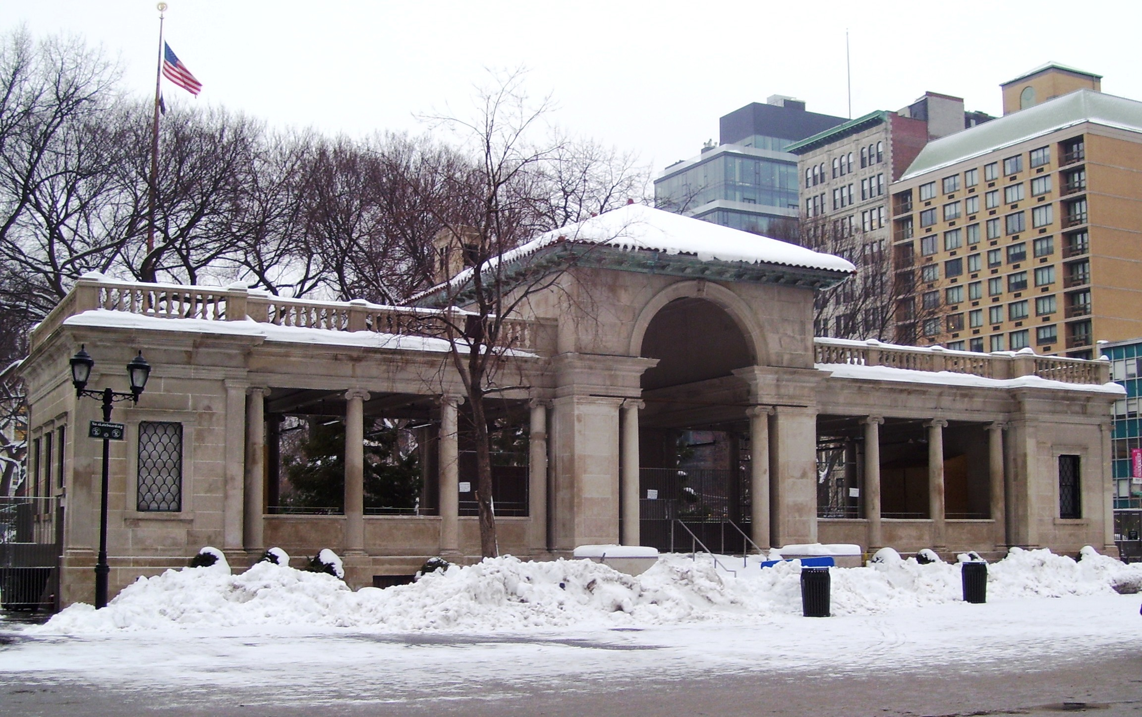 The pavillion at the north end of Union Square Park in Manhattan, New York City.